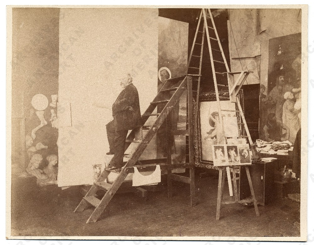 William-Adolphe Bouguereau in his studio